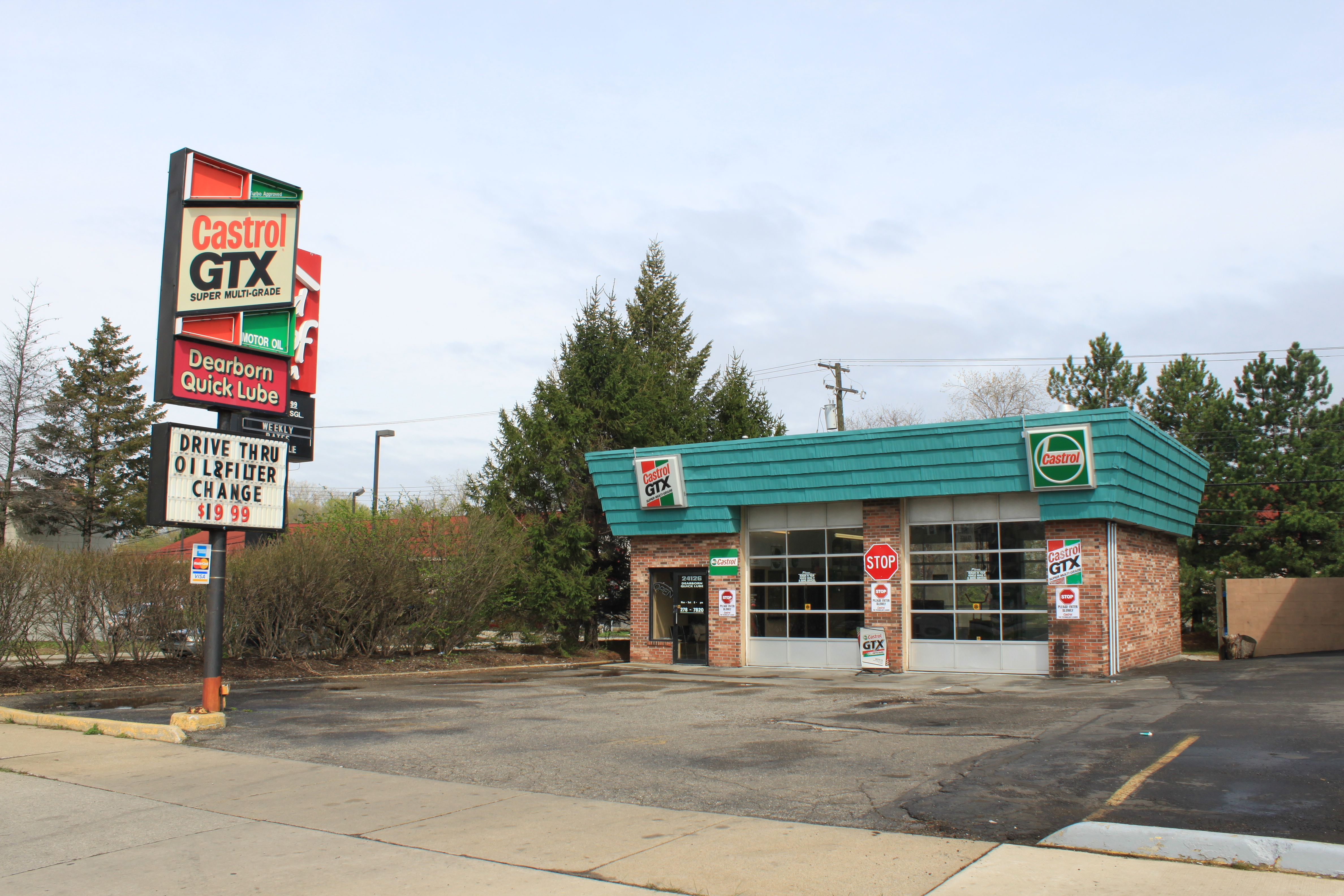 Dearborn Castrol Quick Lube, 24126 Michigan Avenue, Dearborn, Michigan. It is part of an independently-owned automobile oil change operation chain.